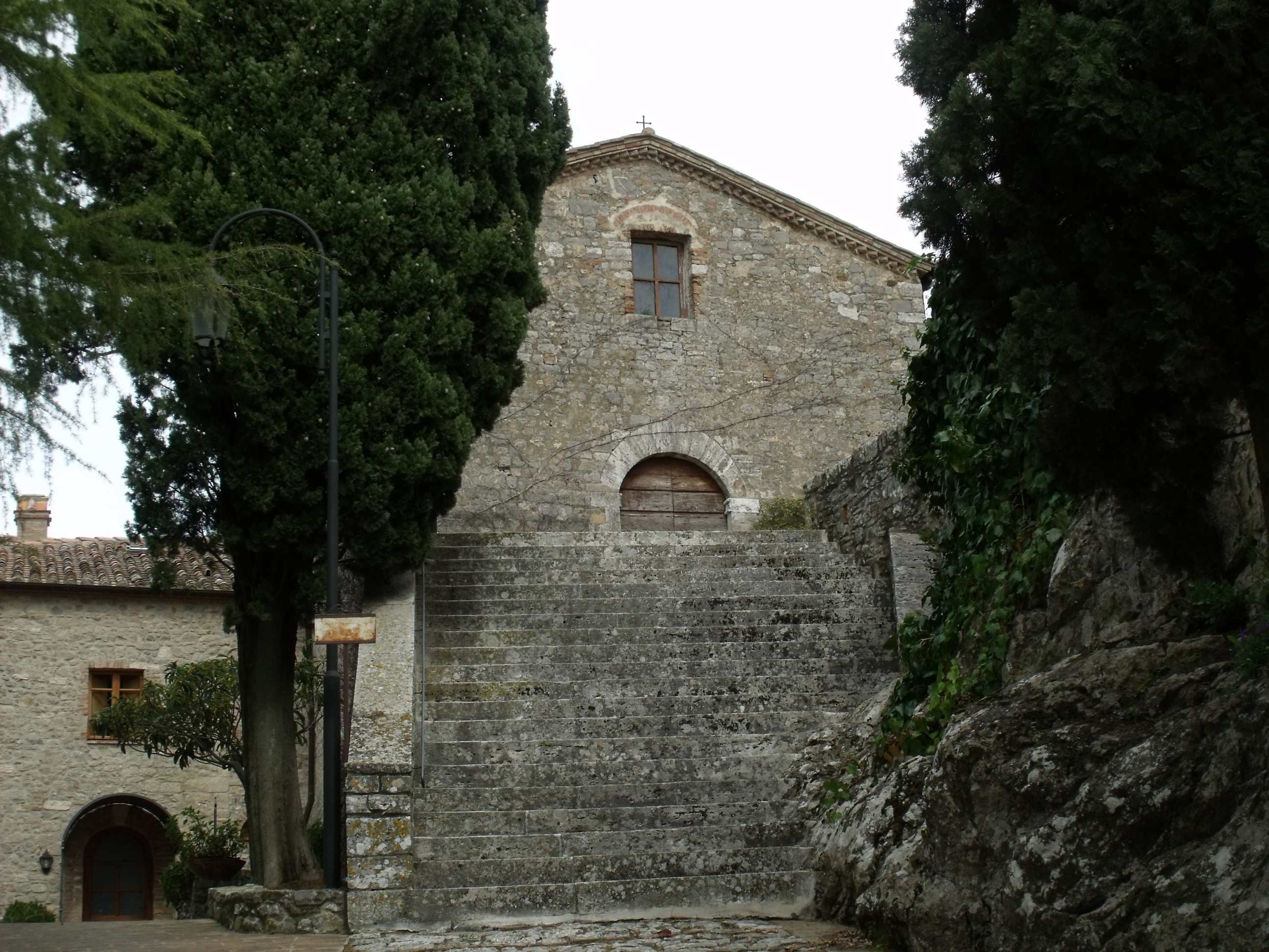 Church / Chiesa di San Simeone in Rocca d’Orcia, Castiglione d’Orcia, Val d’Orcia, Province of Siena, Tuscany, Italy